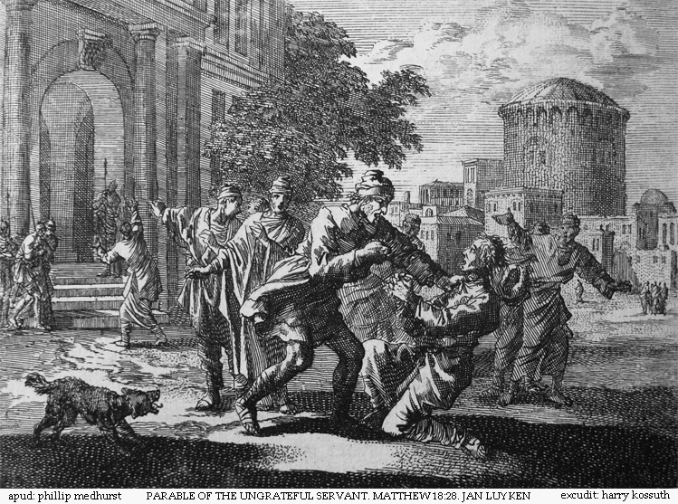 An etching by Jan Luyken illustrating Matthew 18:28 in the Bowyer Bible, Bolton, England.